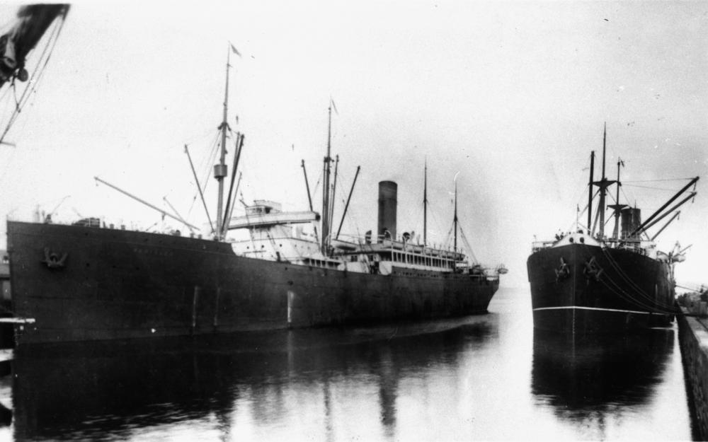 Pericles (ship) Built 1908. 10,925 Tons. Speed 14 knots. ( Description supplied with photograph).